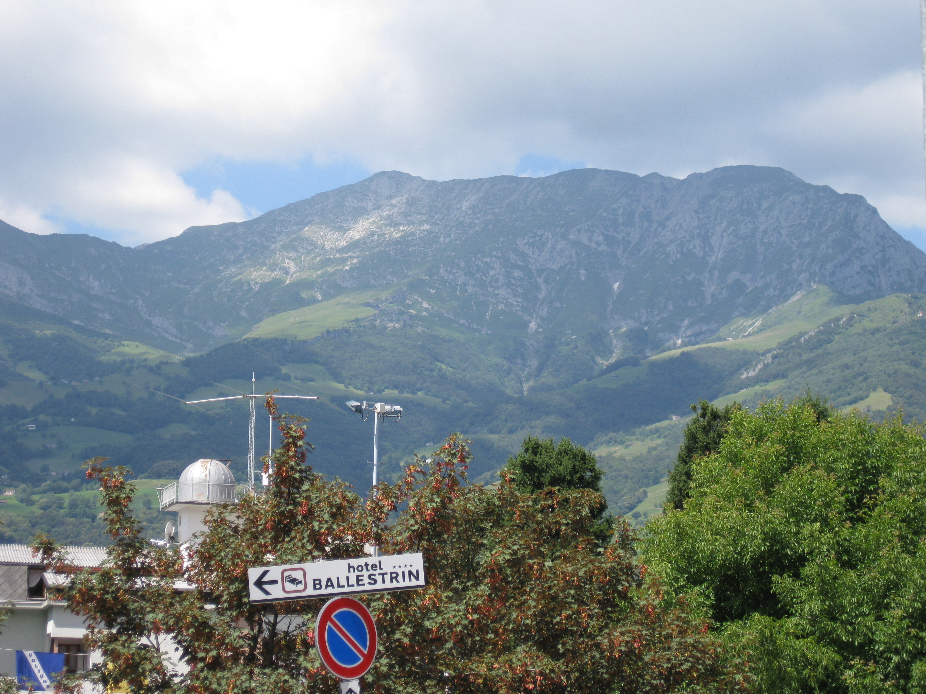 The Mountains in Valsassina, Barzio ITALY